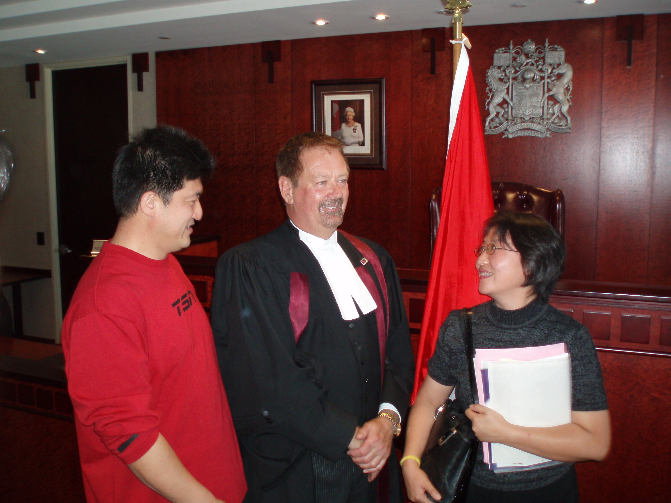 Oath of citizenship ceremony